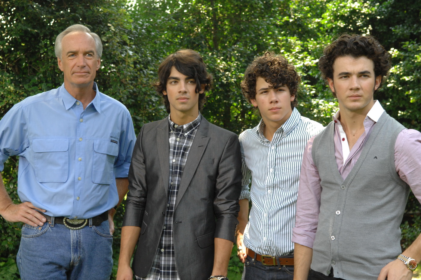 Former U.S.Secretary of the Interior Dirk Kempthorne (left) and the Jonas Brothers